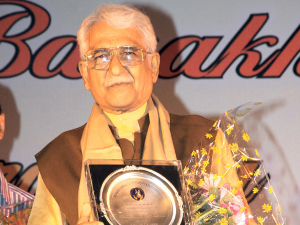 Ramesh Deo at Punjab Association organizes 'Baisakhi Ki Raat' event